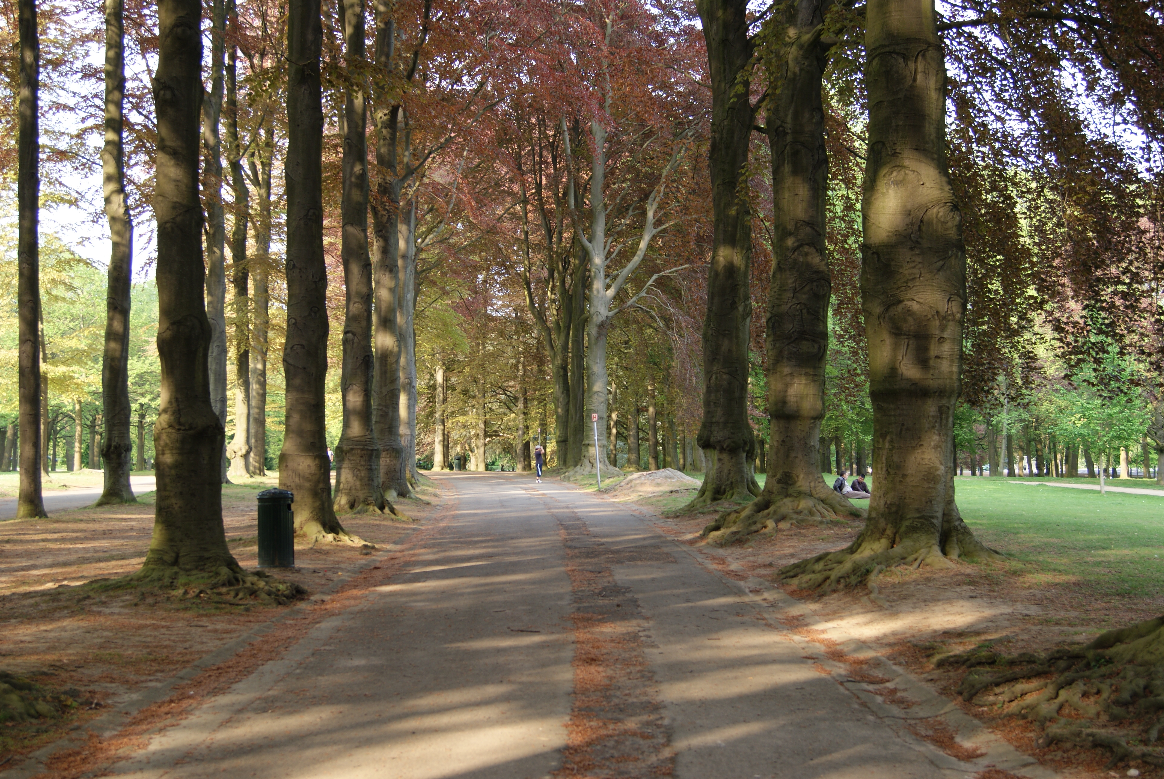 One of the park walks in Parc d'Osseghem (Ossegempark), Brussels (2011). The parc was created by the landscape architect Jules Buyssens for the World Fair 1935.